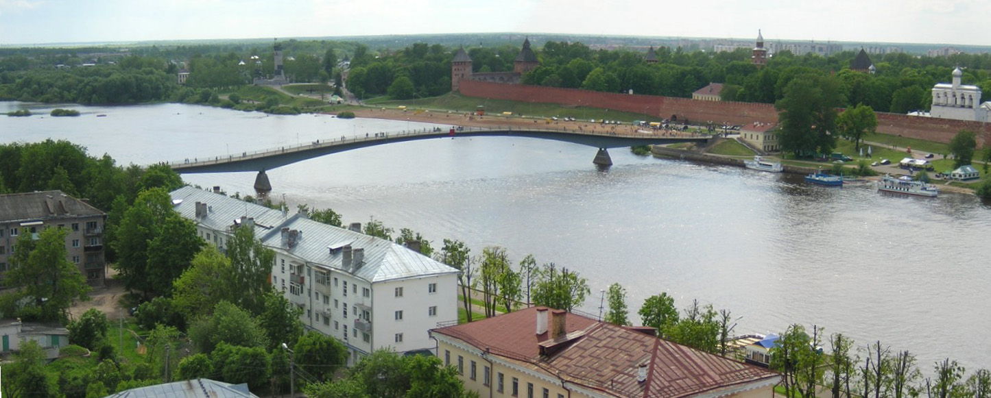 Veliky Novgorod, Russia. Pedestrian bridge and kremlin seen from north-east, apparently from a tall building on the market side of town.